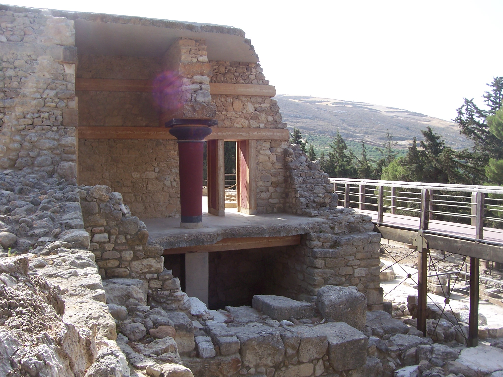 Detail of the interior reconstruction of the Palace